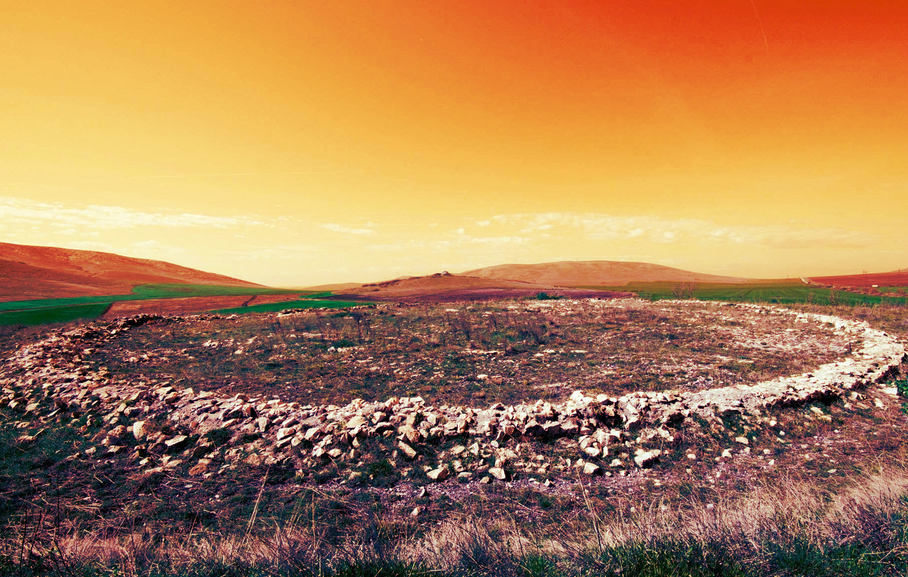 Inertepe Heroon Isperihovo BG